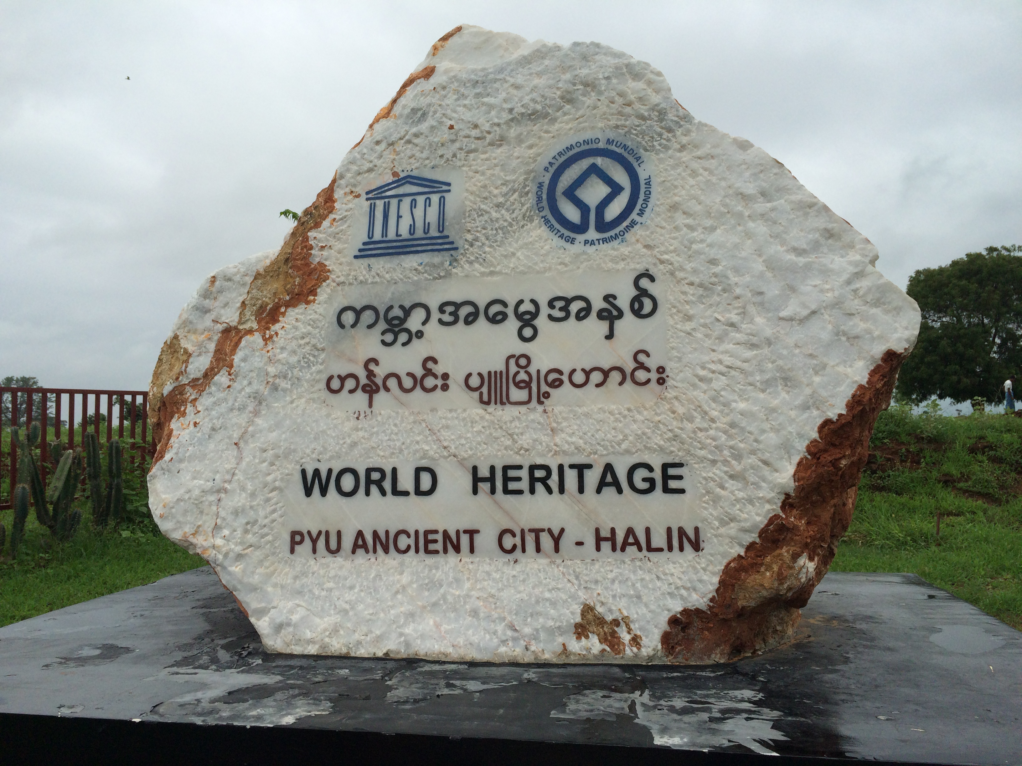 UNESCO inscription of Hanlin - Pyu Ancient City